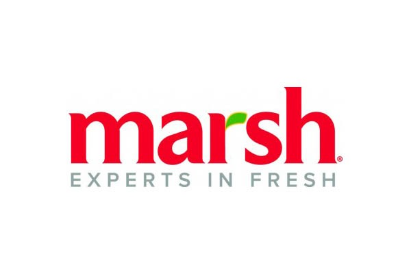 Marsh Logo 2017 to Present